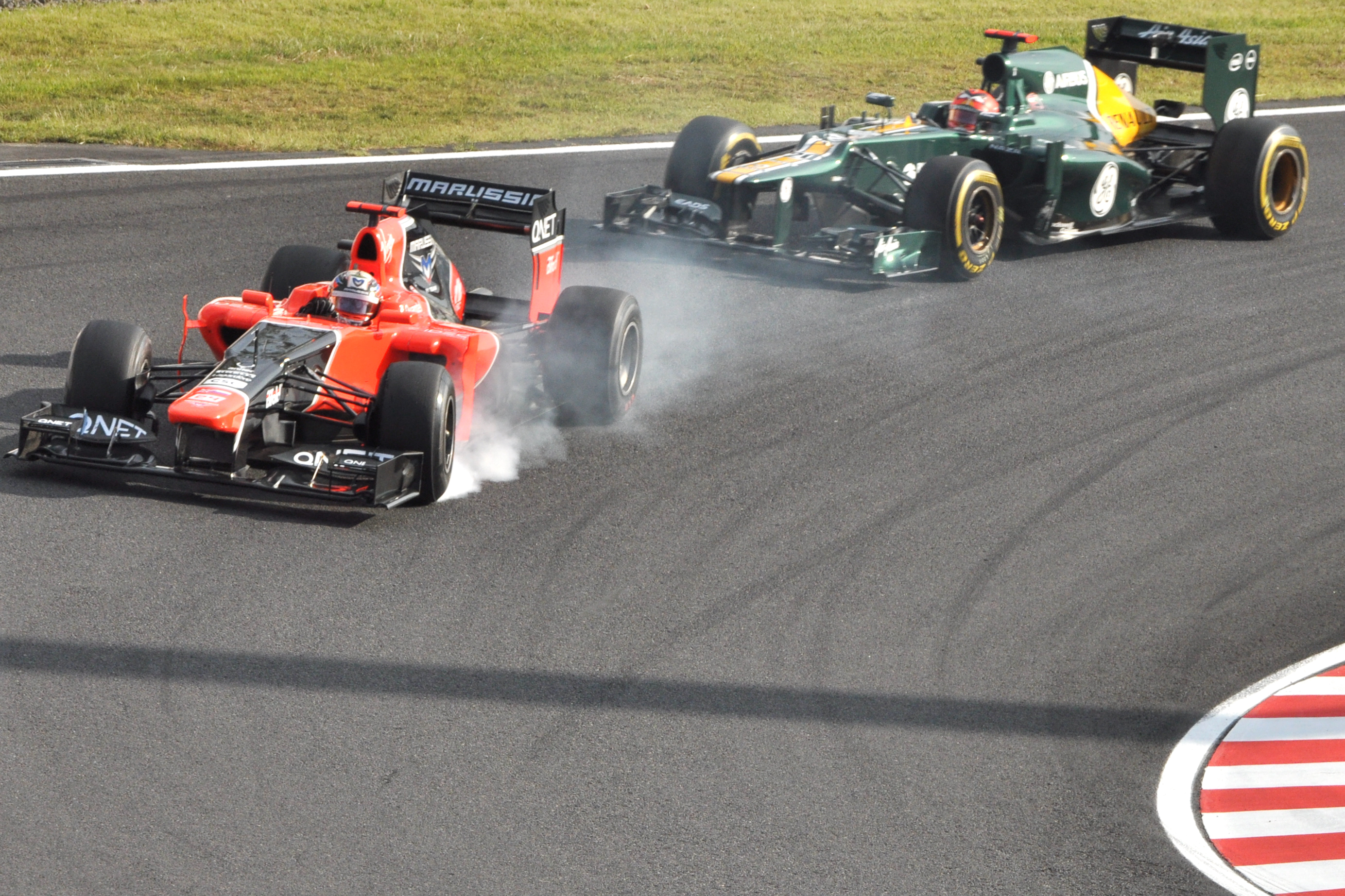 Timo Glock in the Marussia brakes late into the hairpin and surprises Heikki Kovalinen in the following Caterham during the second free practice session of the 2012 Formula 1 Japanese Grand Prix.